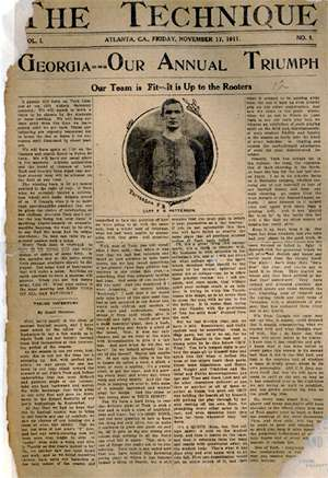 Description: Front page of the first issue of The Technique, published November 11, 1911.